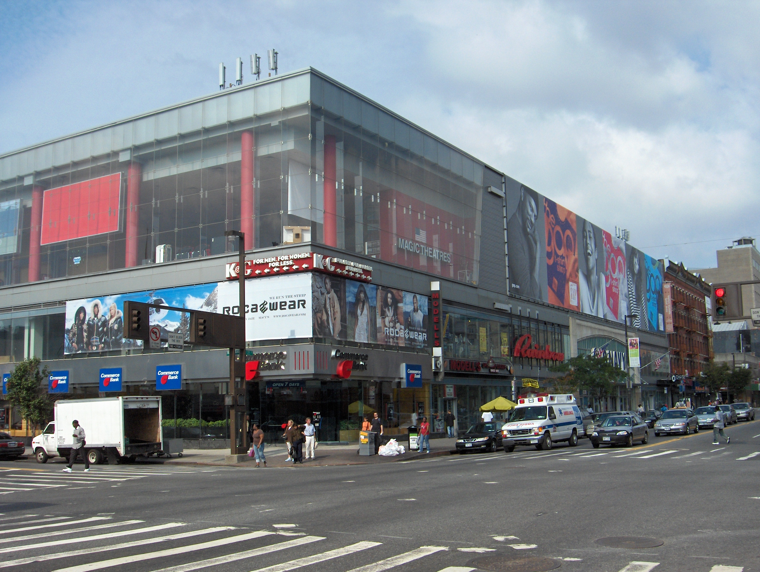 A shopping Mall on 125th Street, Harlem, NYC